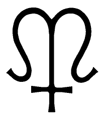 The heraldic sign of duke Iwan Puciata of Drutsk (now Belarus), a XV century nobleman. Based on an image in: Studya, rozprawy i materyały z dziedziny historyi polskiej i prawa polskiego T.7; Jana Zamoyskiego notaty heraldyczno-sfragistyczne